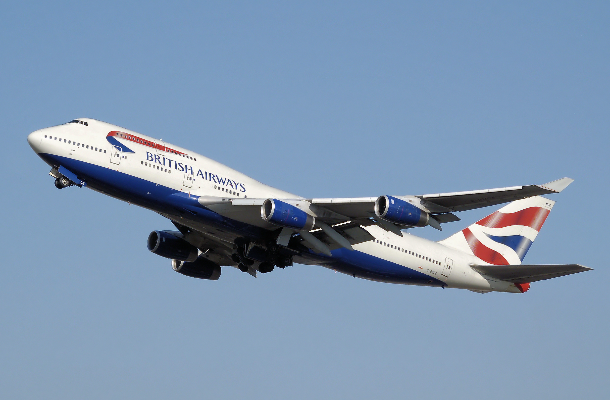 British Airways Boeing 747-400 (G-BNLE) takes off from London Heathrow Airport, England. The undercarriages are retracting.